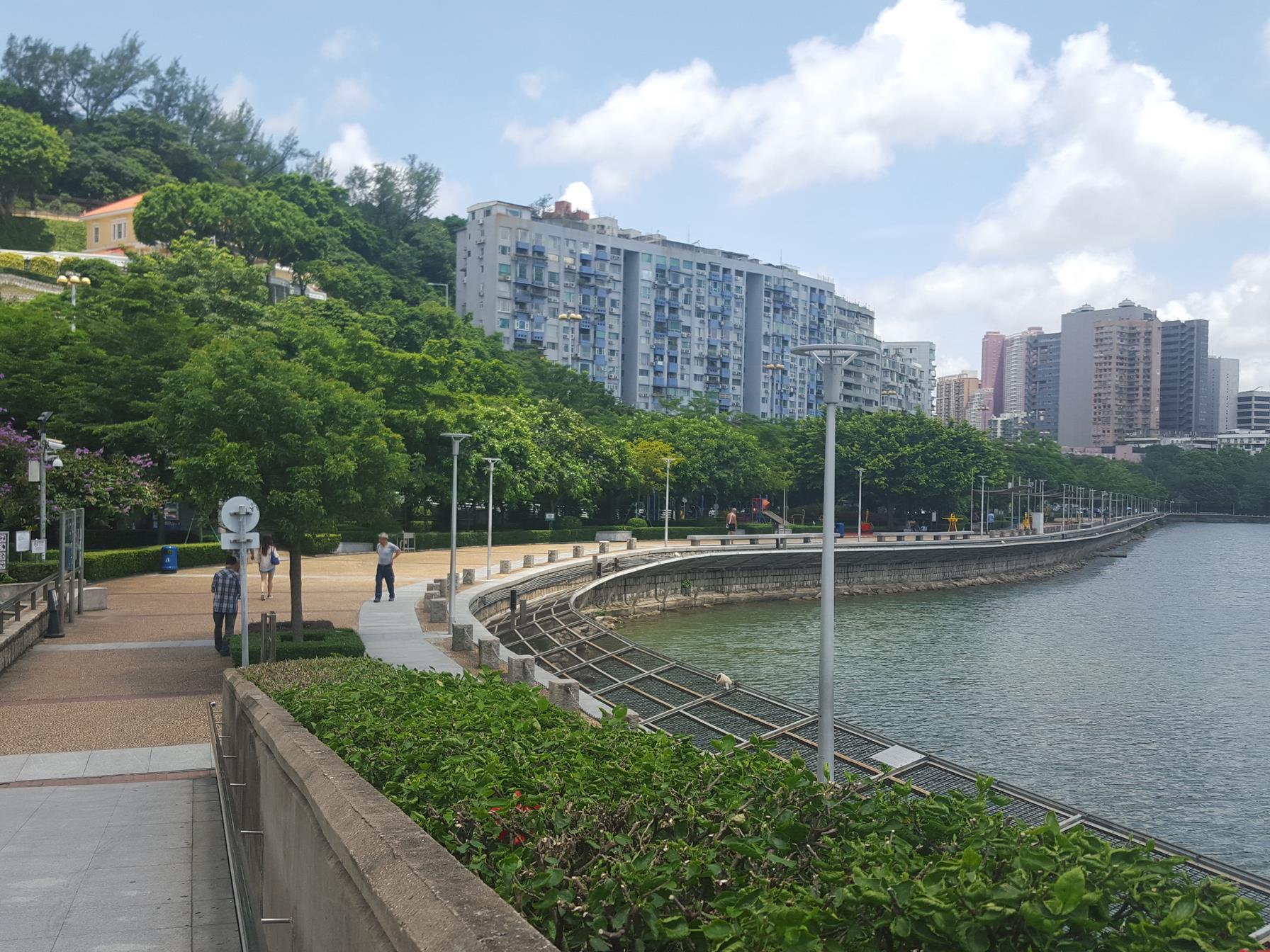 ZAPE Reservoir